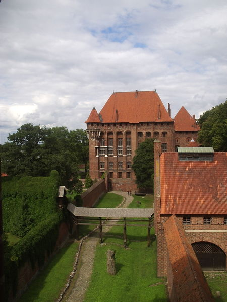 Teutonic castel - Malbork, Poland